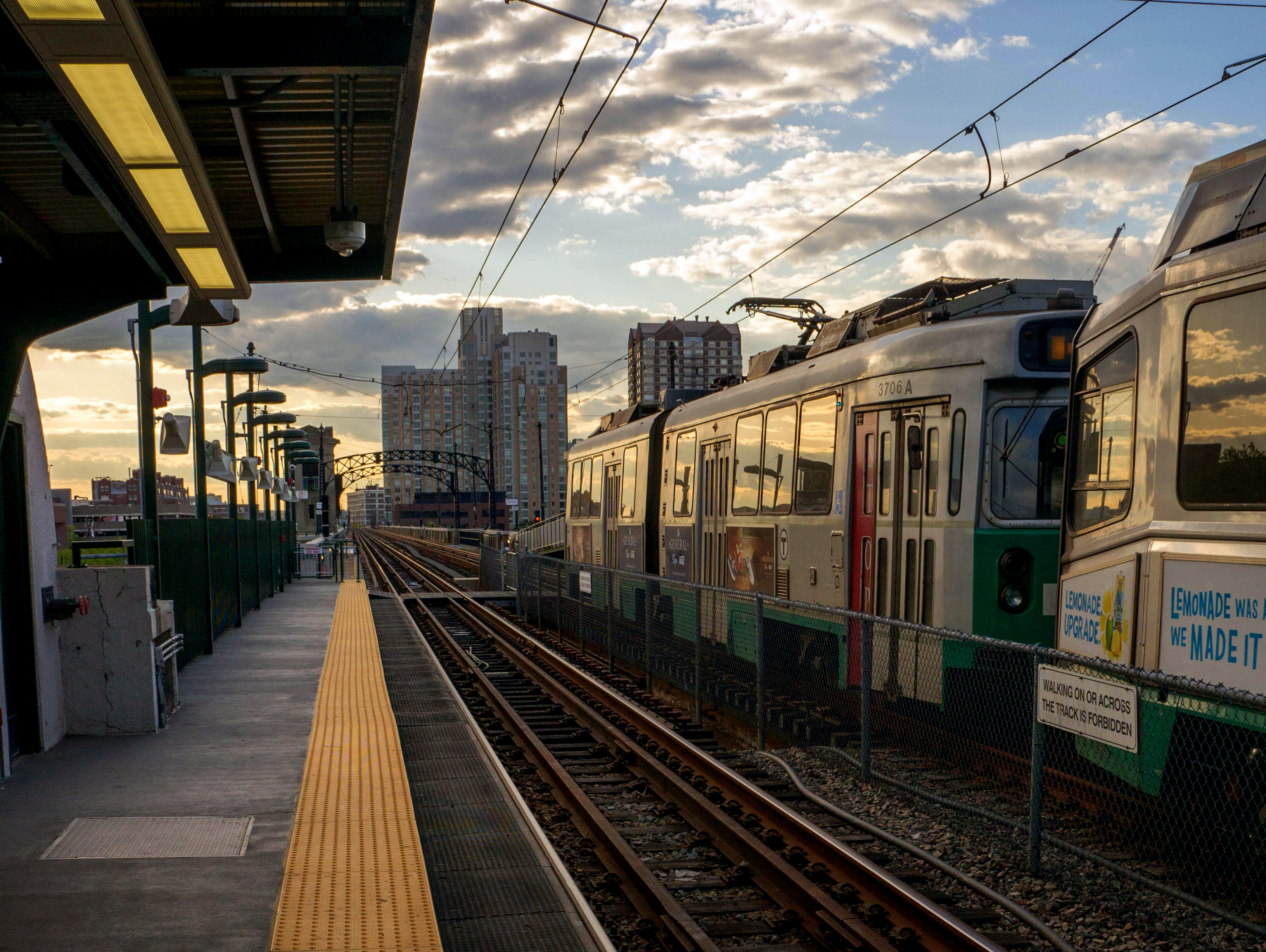 An outbound train leaves Science Park station bound for Lechmere